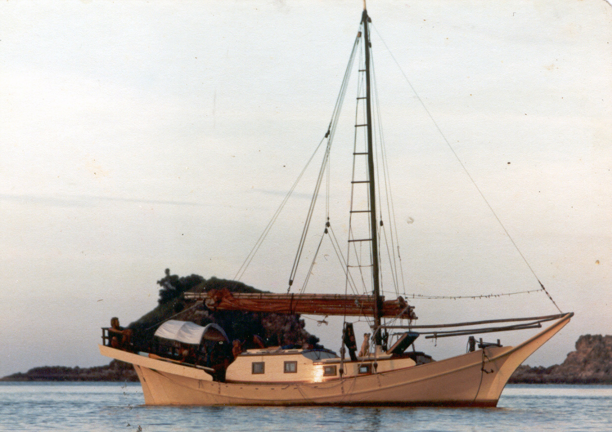 The Burong Bahri anchored in Pulau - island - Kapas, 1980